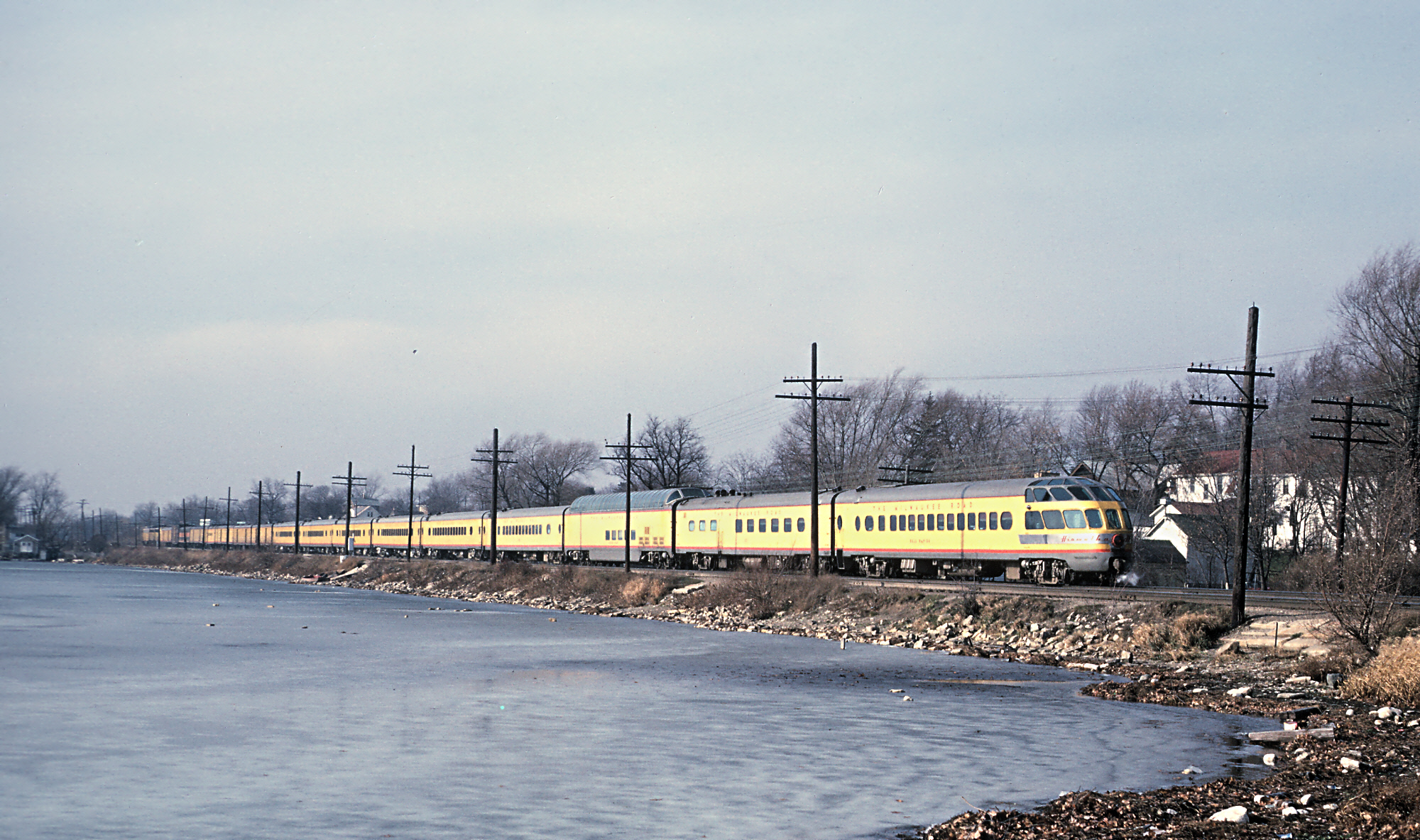 Milwaukee Road Train 5, The Morning Hiawatha, heading for Minneapolis at Pewaukee, Wisc. in December, 1964. See previous photo.